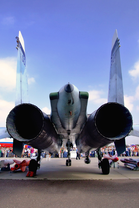 MAKS Airshow-2007. Su-30MK